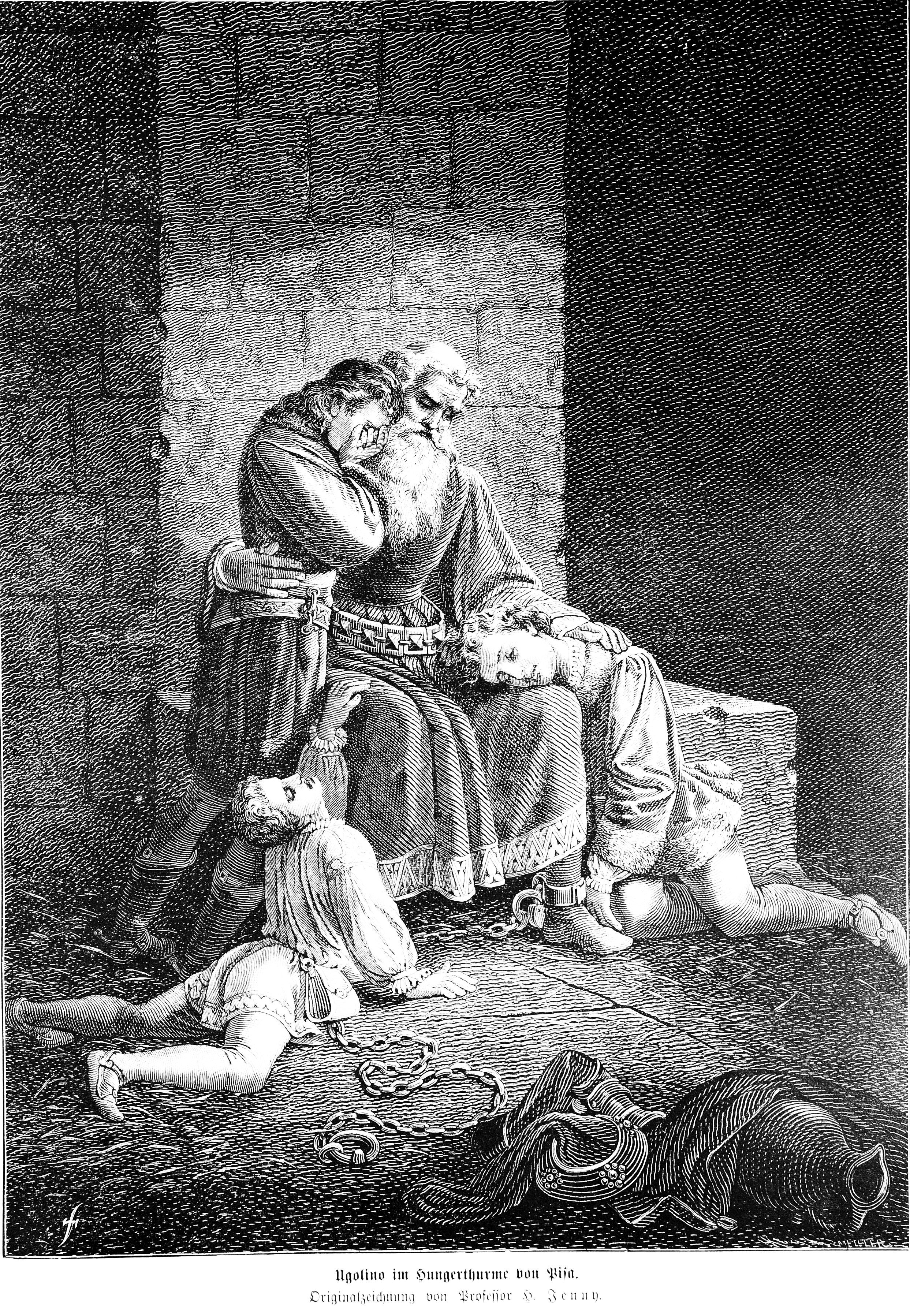 caption: "Ugolino im Hungerthurme von Pisa.Originalzeichnung von Professor H. Jenny."